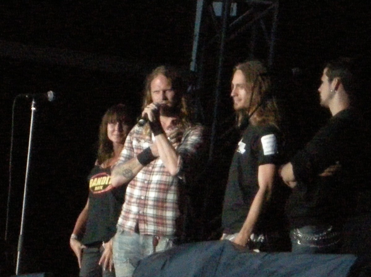 Radio Bandit crew, Sanna, Danne, André, Peter, at Sonisphere Sweden 2009